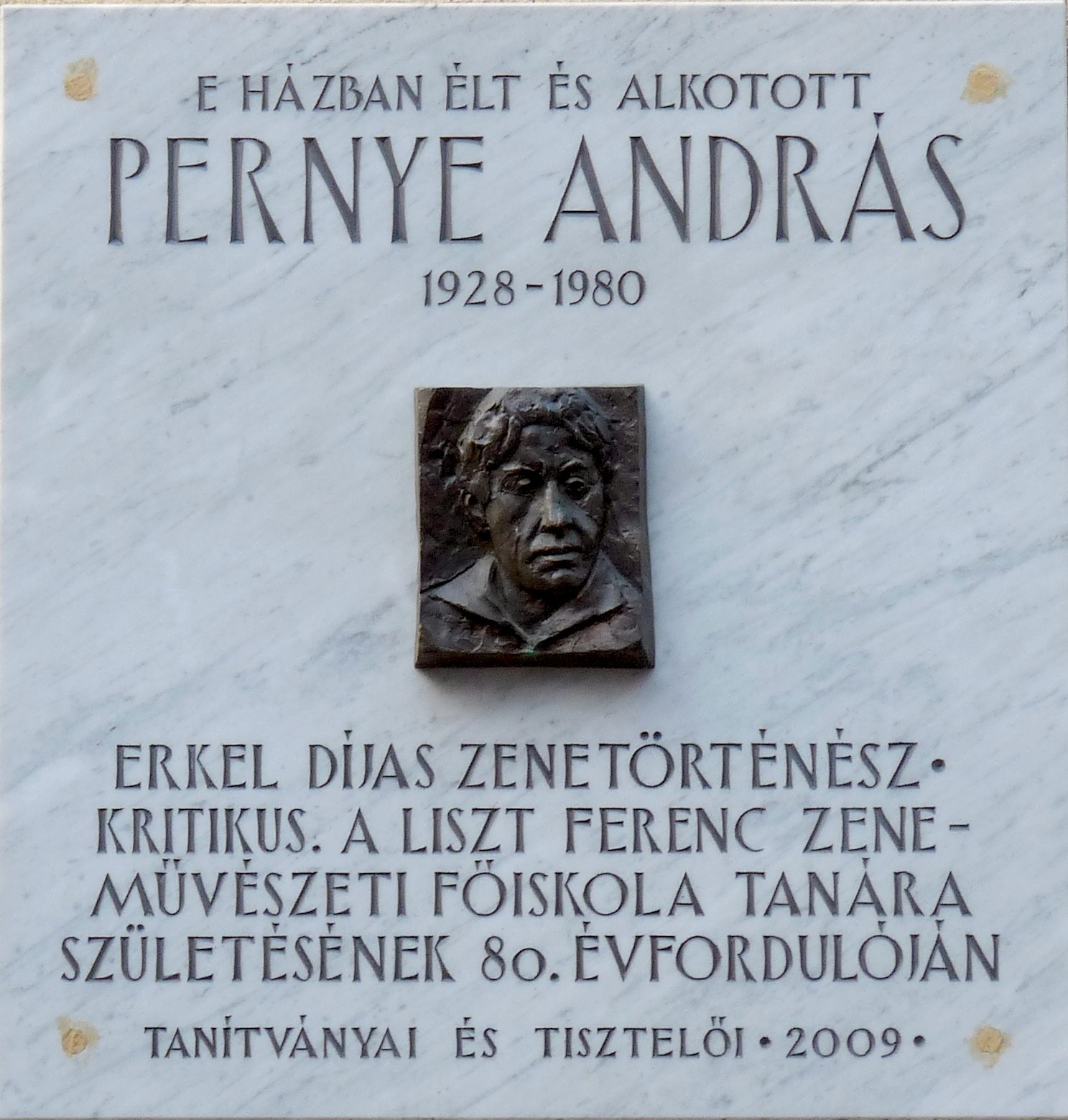 András Pernye commemorative plaque with relief in Budapest District VII, Dob Street No 56.